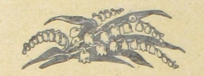 Image taken from: Title: "New Amazonia: a foretaste of the future" Author: CORBETT, Elizabeth Burgoyne. Shelfmark: "British Library HMNTS 012632.k.19." Page: 162 Place of Publishing: London; Lambert & Co Date of Publishing: 1889 Publisher: Power Publishing Co. Issuance: monographic Identifier: 000783828 Explore: Find this item in the British Library catalogue, 'Explore'. Download the PDF for this book (volume: 0) Image found on book scan 162 (NB not necessarily a page number) Download the OCR-derived text for this volume: (plain text) or (json) Click here to see all the illustrations in this book and click here to browse other illustrations published in books in the same year. Order a higher quality version from here.